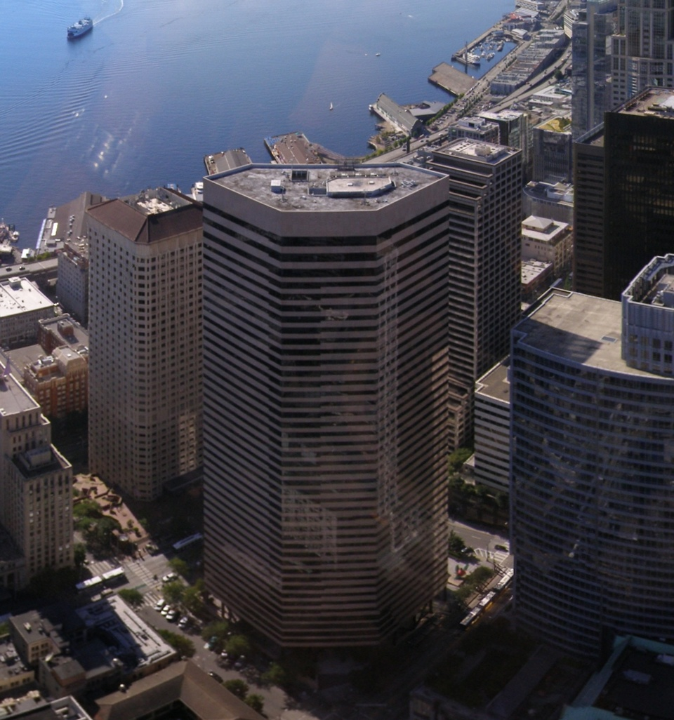 Photo of the Wells Fargo Center from the 73rd floor of the Columbia Center in downtown Seattle.